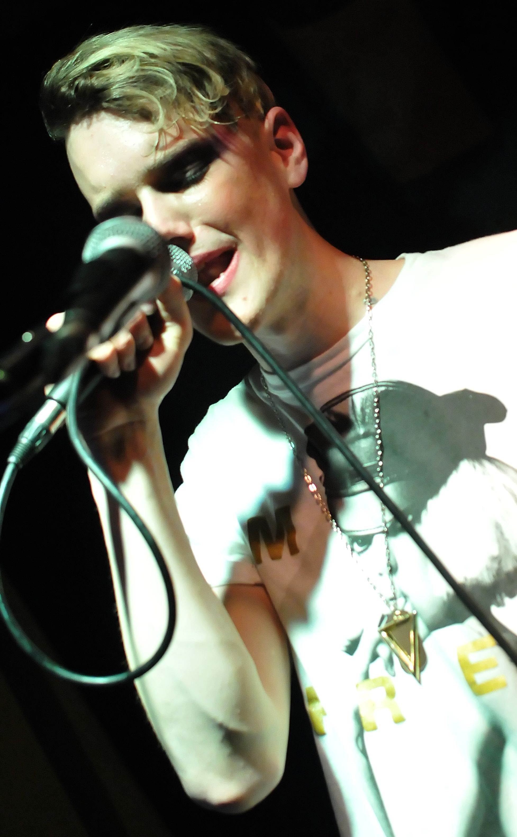 Photos of musician Diamond Rings